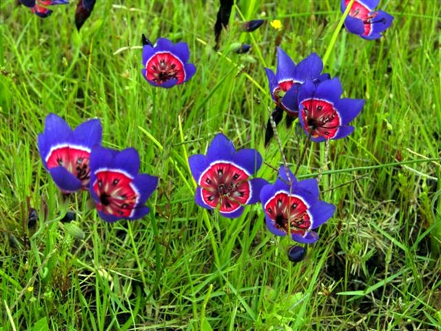 Geissorhiza radians in situ / South Africa - Darling Wildflower Reserve